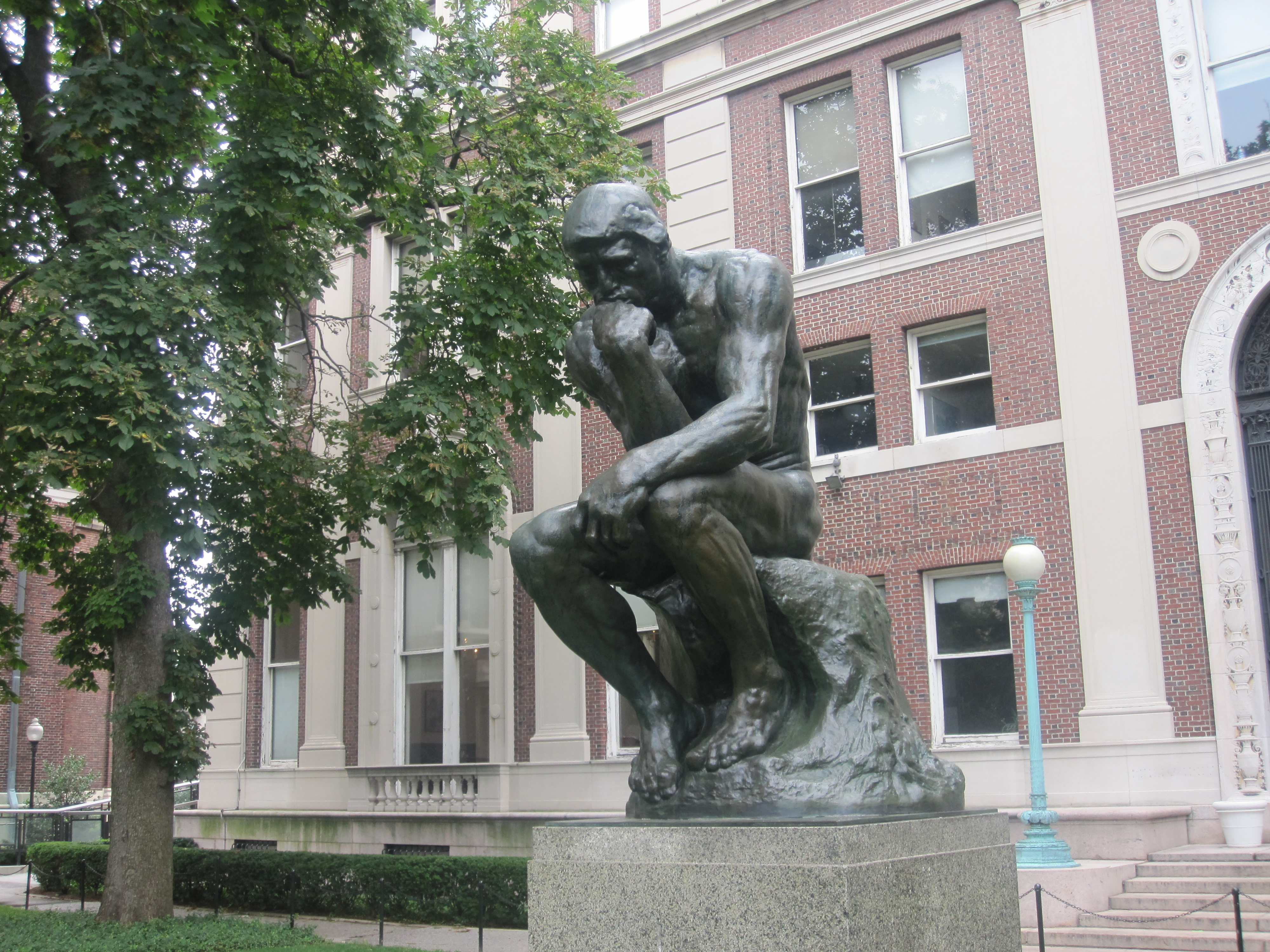 "The Thinker" statue at Columbia University, NYC